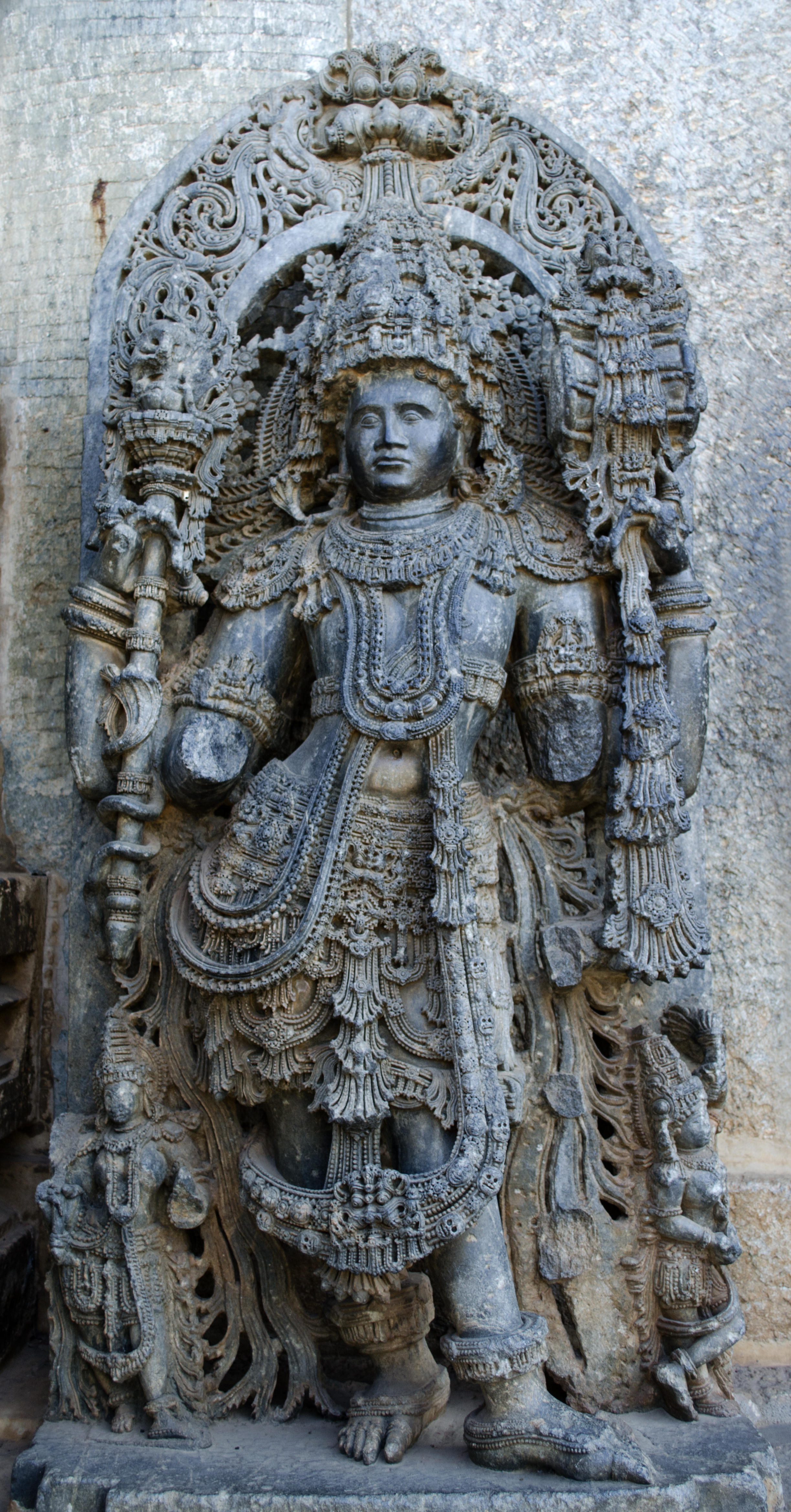 Hoysaleswara with broken hands